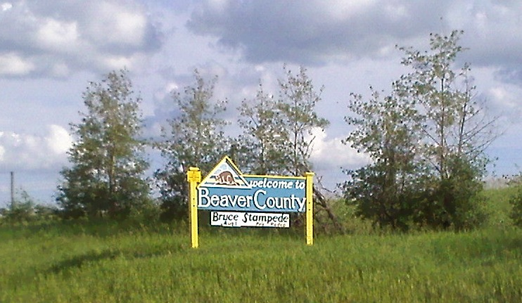 Welcome sign for Beaver County, Alberta on Highway 14 west of Tofield, advertising the Bruce stampede.